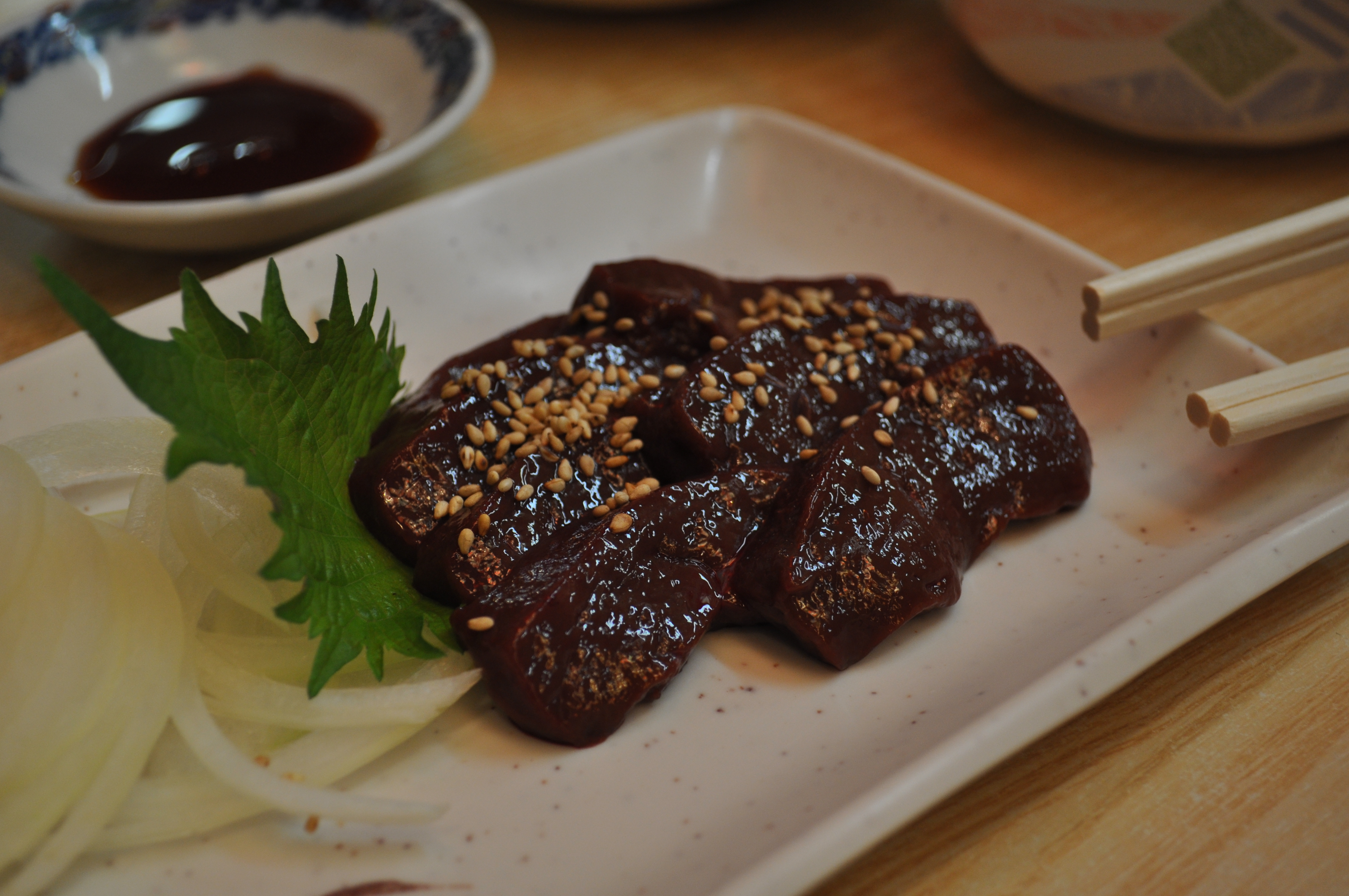 Beef liver sashimi at yakitori restaurant in Yurakucho, Tokyo, Japan